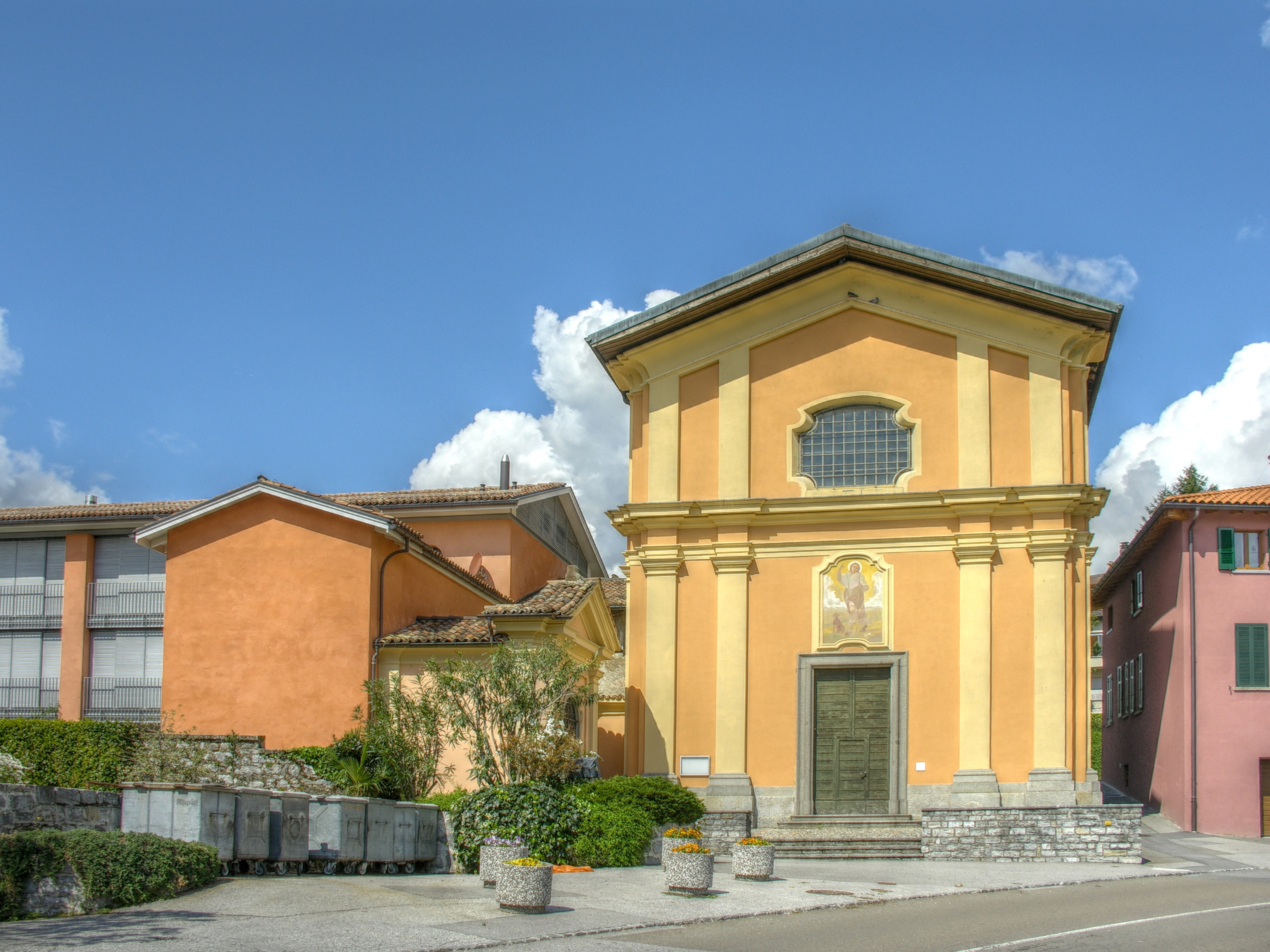 Morbio Inferiore, Tessin, Switzerland - San Rocco church and it's chapel